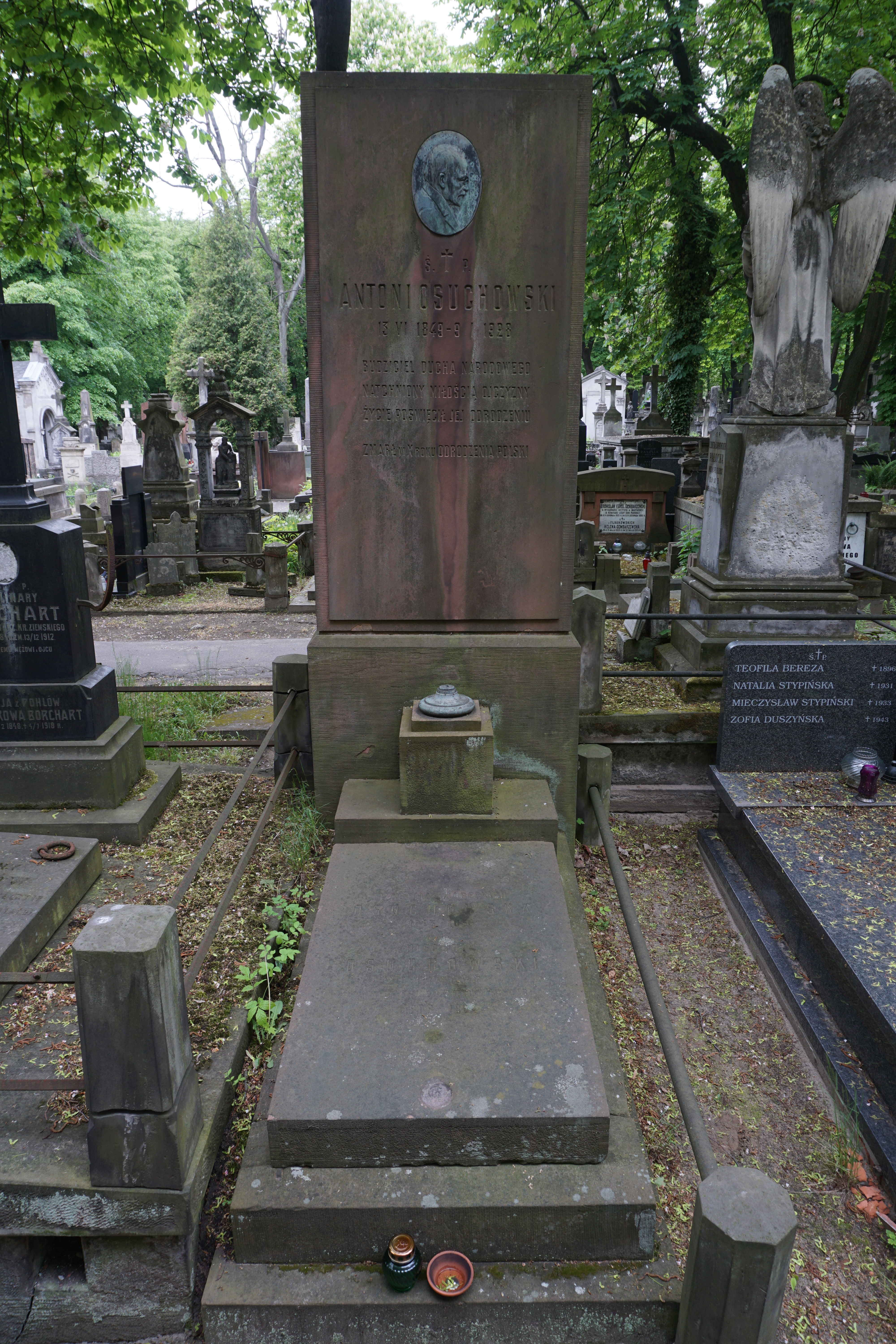 The grave of Antoni Osuchowski at the Powązki Cemetery (section 20, row 5, grave 26)